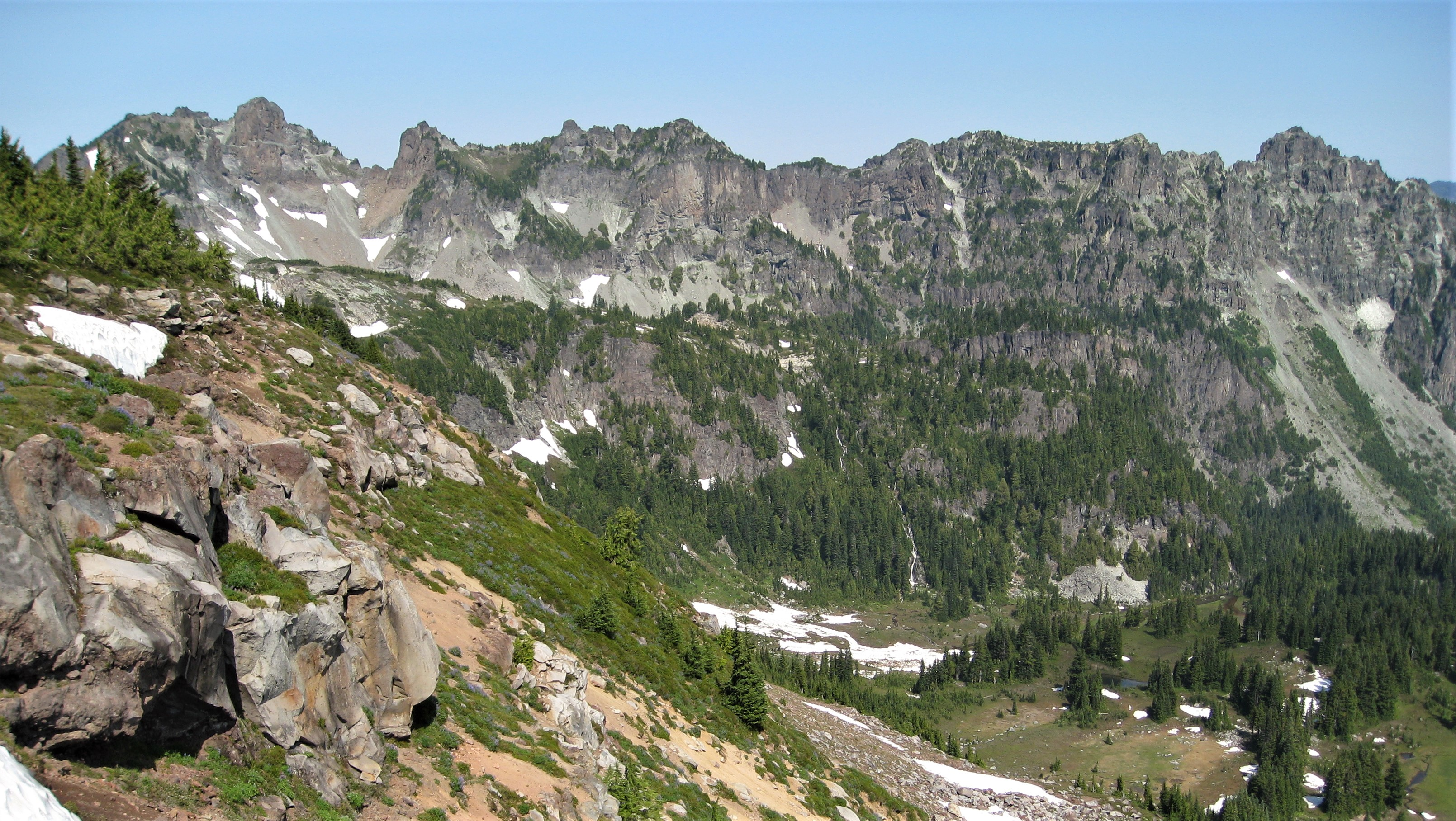 Mother Mountain from Spray Park, Mount Rainier National Park.